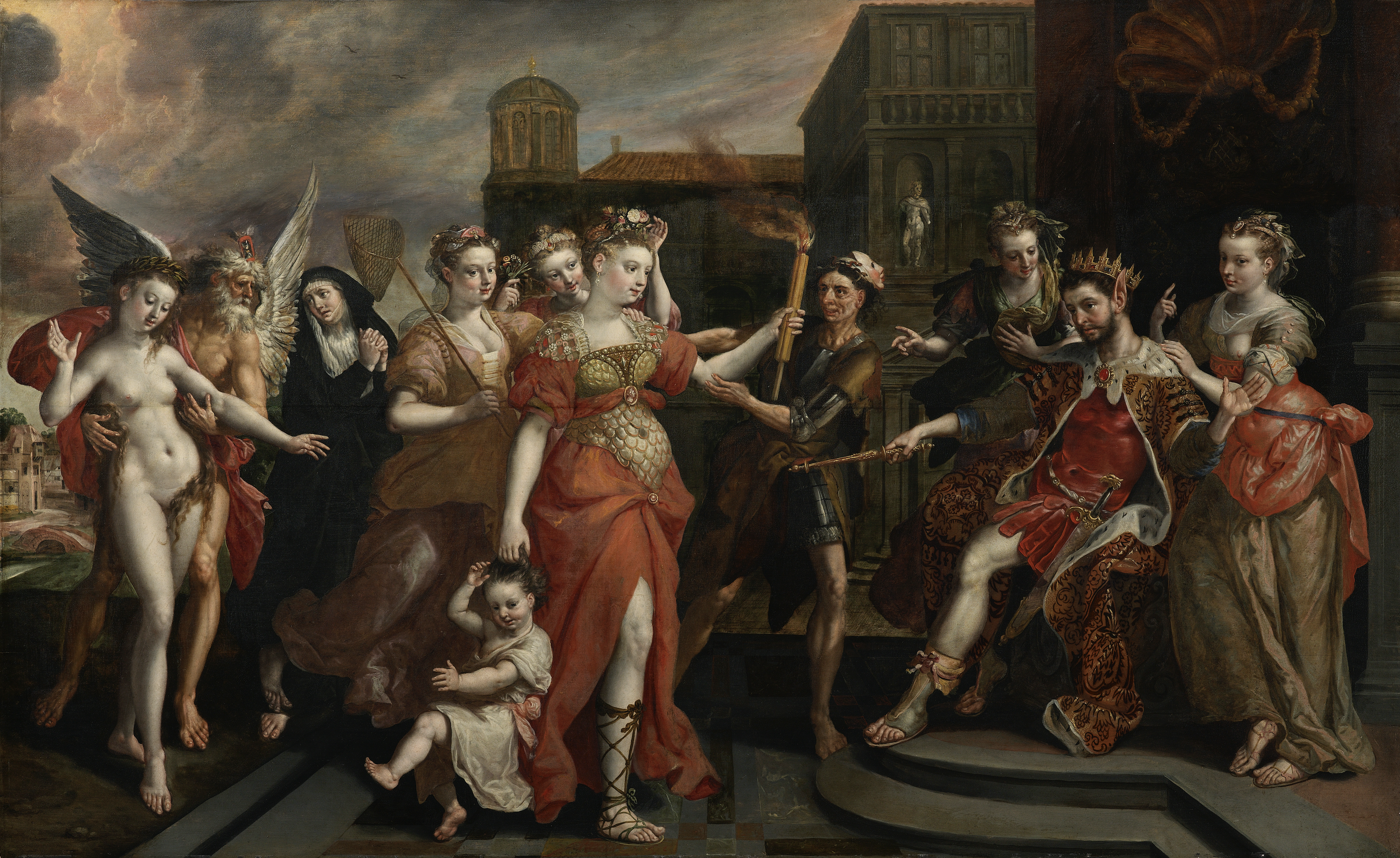 Maerten de Vos, The Calumny of Apelles